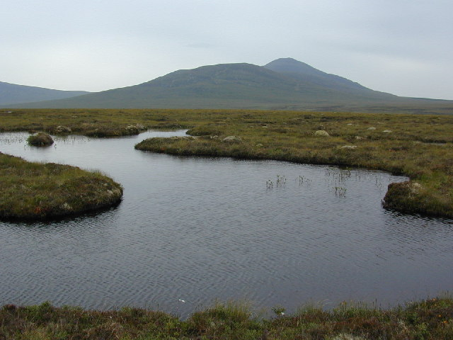 Flow country. On the RSPB Forsinard reserve, looking SW across the peat bog towards Ben Griam Beg